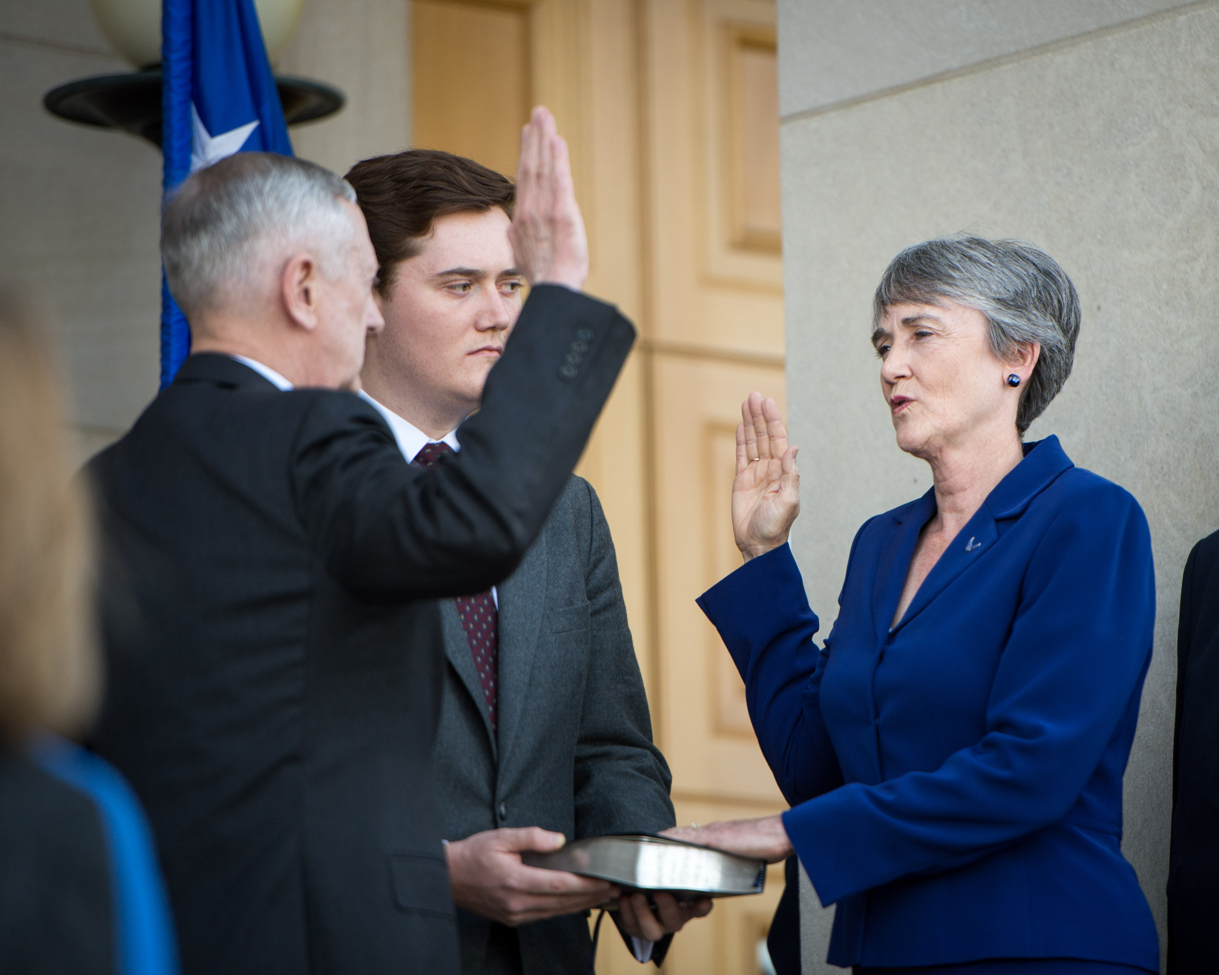 Secretary of Defense Jim Mattis administers the oath of office for Secretary of the Air Force Heather Wilson during her swearing-in ceremony May 16, 2017, at the Pentagon in Washington, D.C. Wilson is a U.S. Air Force Academy graduate and former New Mexico representative. She will be responsible for organizing, training and equipping 660,000 active-duty, Guard, Reserve and civilian Airmen, as well as managing a $132 billion budget. (DOD photo by Air Force Staff Sgt. Jette Carr)